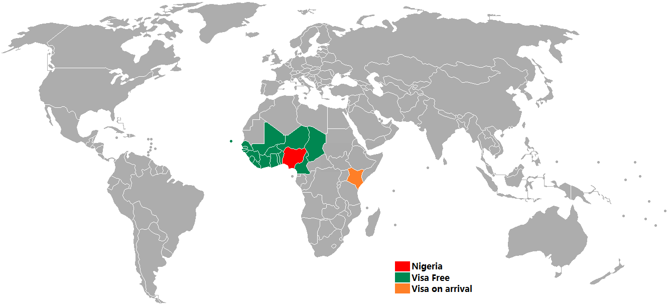 Visa policy of Nigeria Nigeria Visa-free Visa on arrival